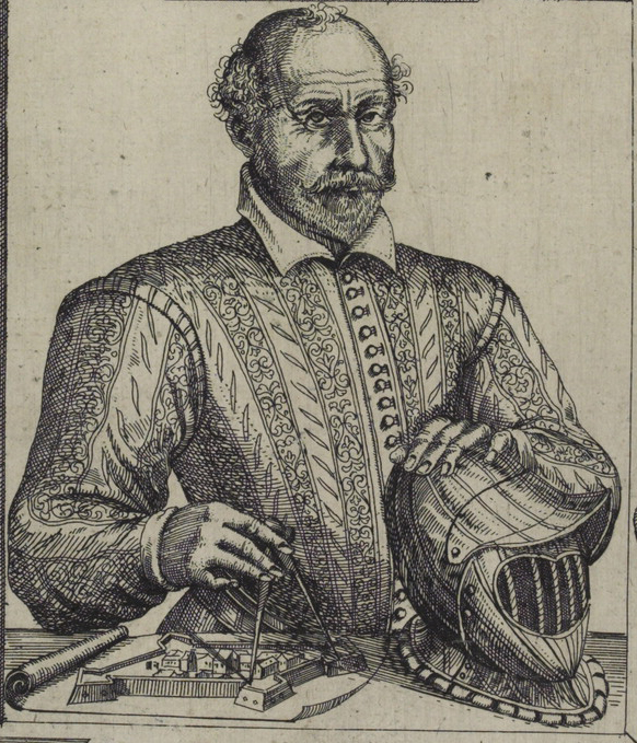 Illustration of Agostino Ramelli from Diverse et artificiose machine, cropped.